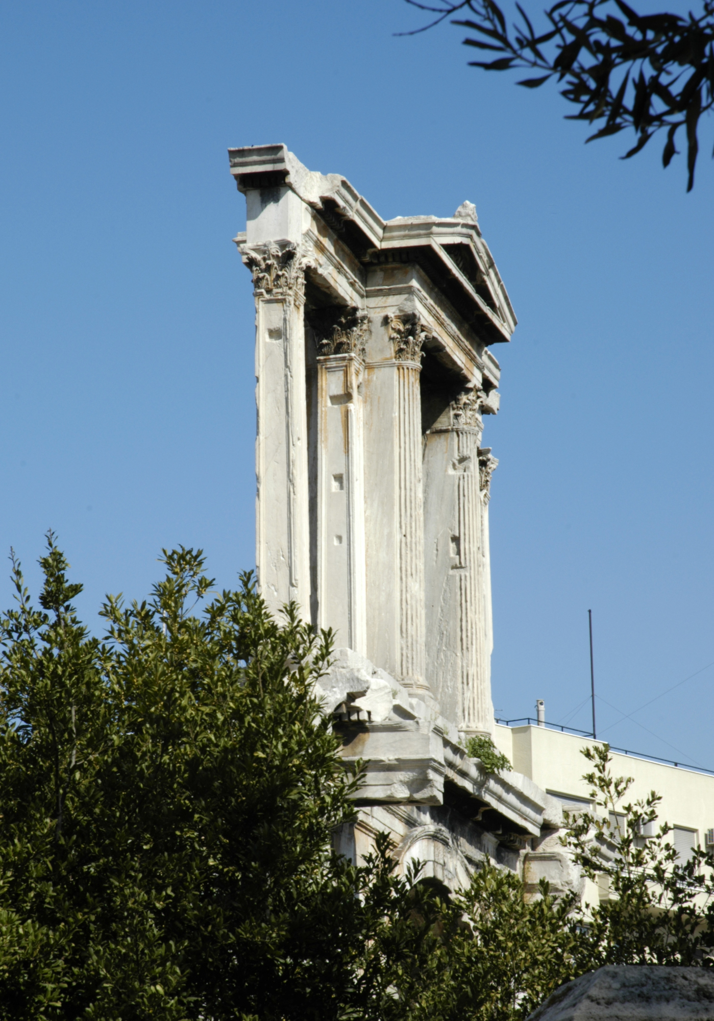 J. Matthew Harrington, personal digital image, March 1, 2007